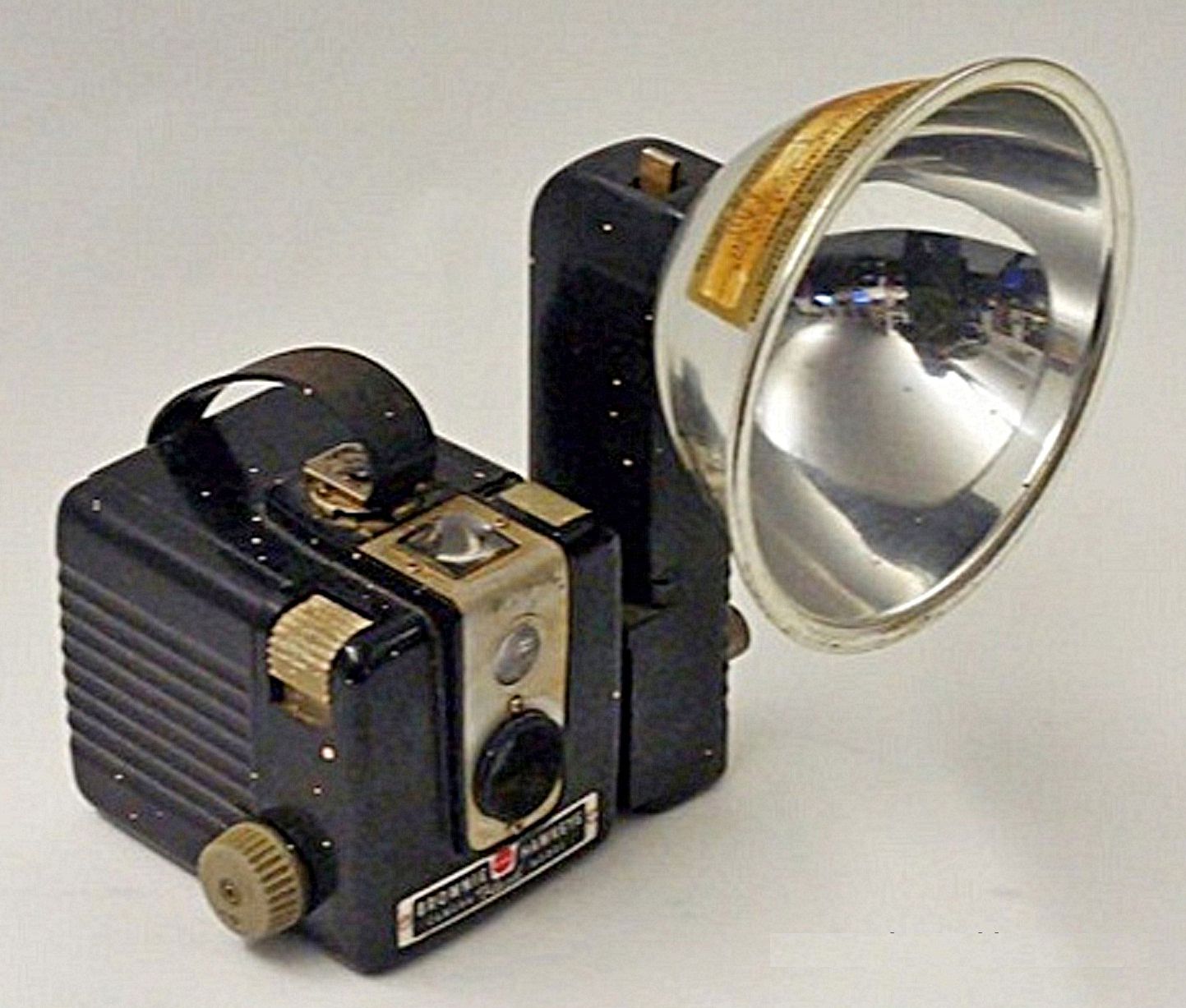 picture of a hawkeye brownie camera